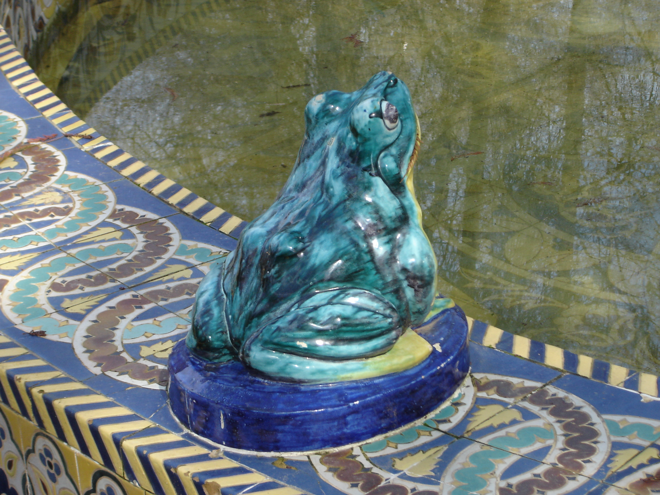 A fountain nozzle at the "Fuente de las Ranas"-"Fountain of the Frogs" made of azulejos-glazed tiles, in Parque de María Luisa - Seville, Andalusia - Spain.